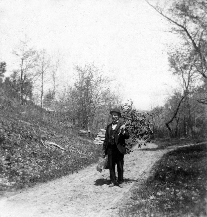 John Michael Holzinger collecting botanical specimens ca. 1910